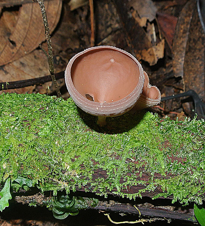 The brown version of this species, perhaps a species complex. Amacayacu Park, Colombia. In context at